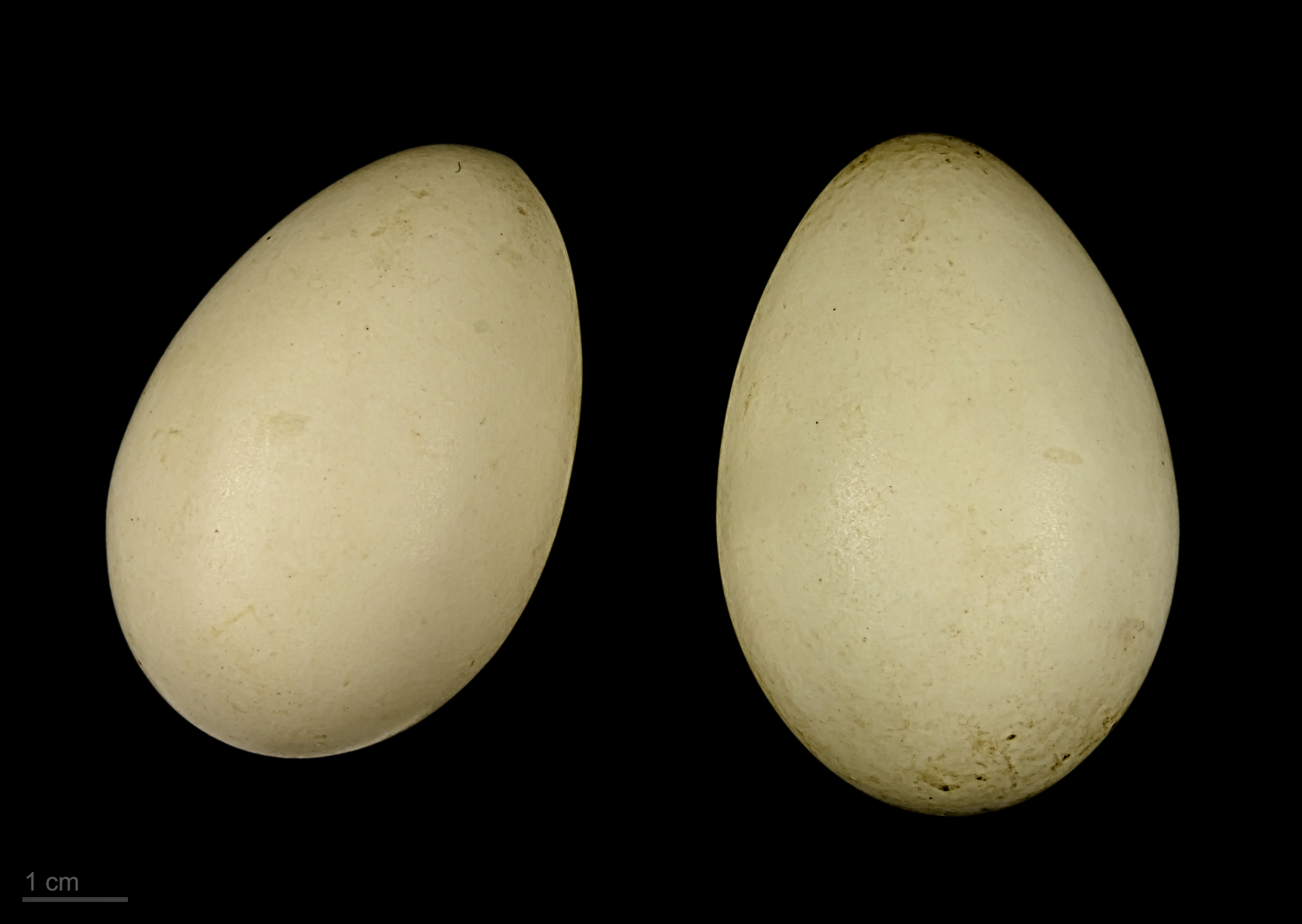 Eggs of Eurasian wigeon Two specimens of the same spawn ; collection of Jacques Perrin de Brichambaut.